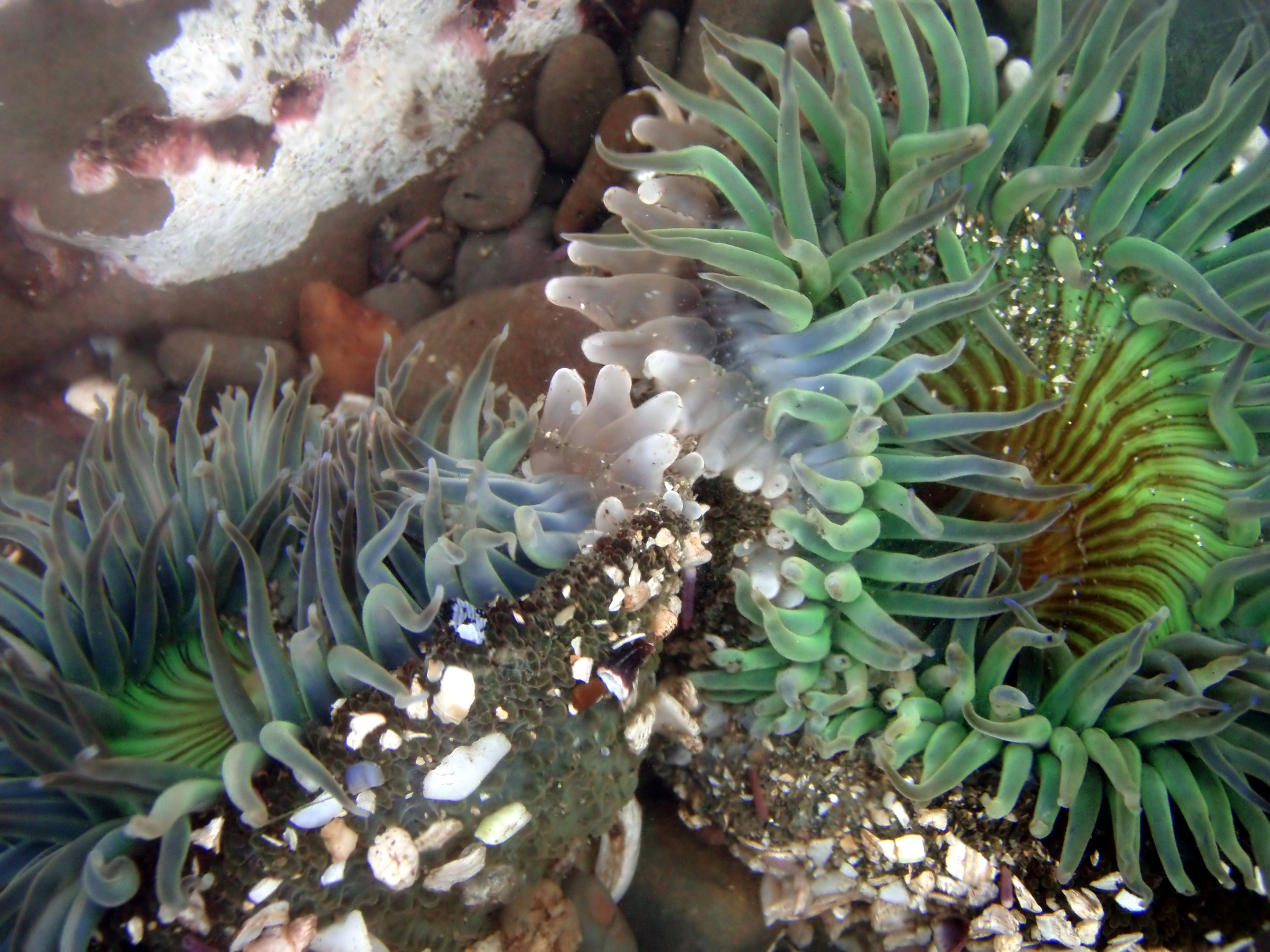 Sea Anemones,Anthopleura sola are engaged in a war for the territory. The white tentacles are fighting tentacles. They are called acrorhagi. The acrorhagi contain concentration of stinging cells. After war ends one of Sea Anemone, should move. Sea Anemones look as plants, but they are animals and they are predators. The image was taken in Northern California Tide pools